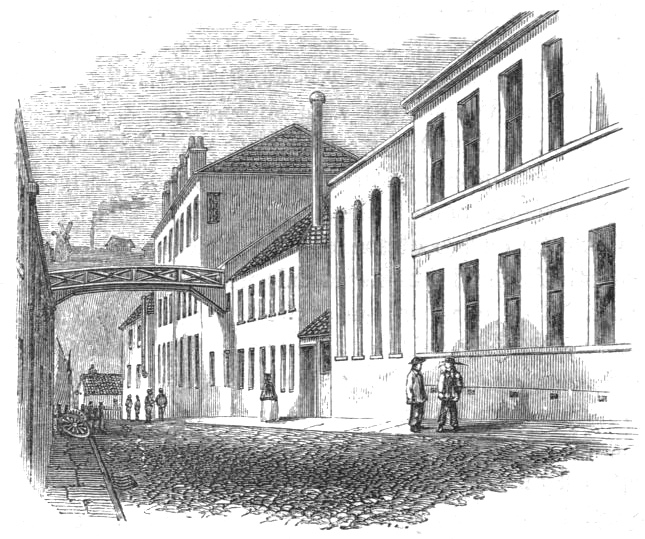 The works of Robert Stephenson & Co in Forth Street, Newcastle